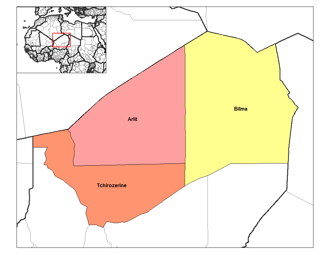 Summary Map of the arrondissements of Agadez department in Niger. Created by Rarelibra 14:23, 13 September 2006 (UTC) for public domain use, using MapInfo Professional v8.5 and various mapping resources.